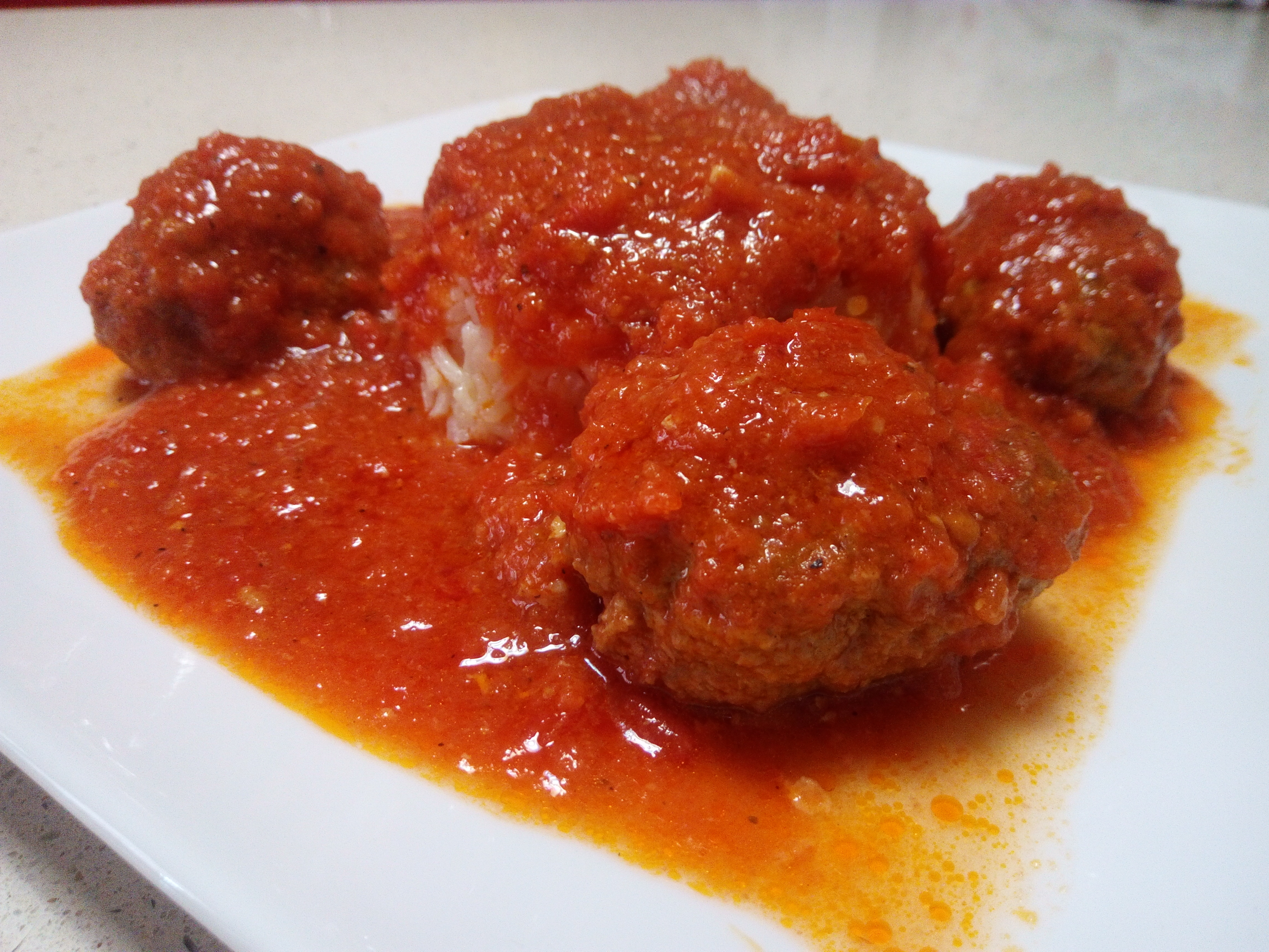 Soutzoukakia Smyrneika